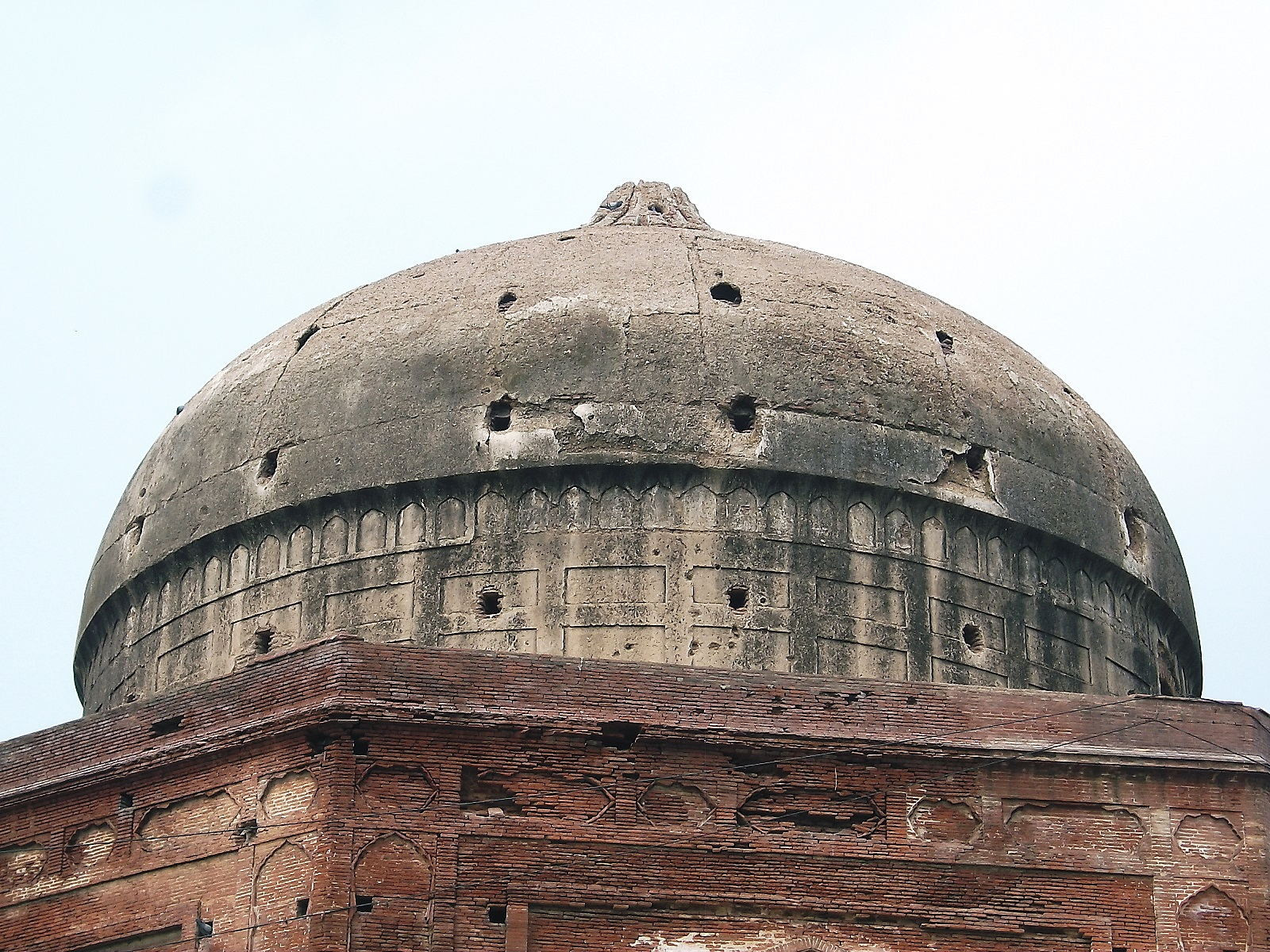 Dome of the tomb of Khan-e-Jahan Bahadur Kokaltash, Lahore